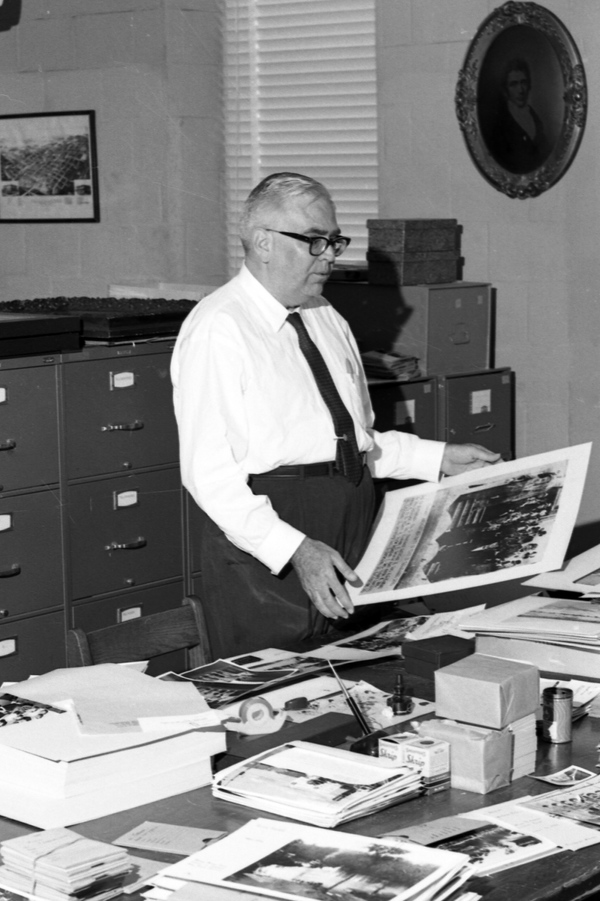 Allen Morris in the photographic archives at FSU's Strozier Library.